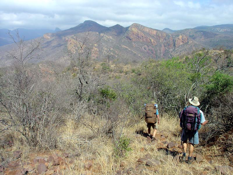 Hiking in the Soutpansberg Mountains